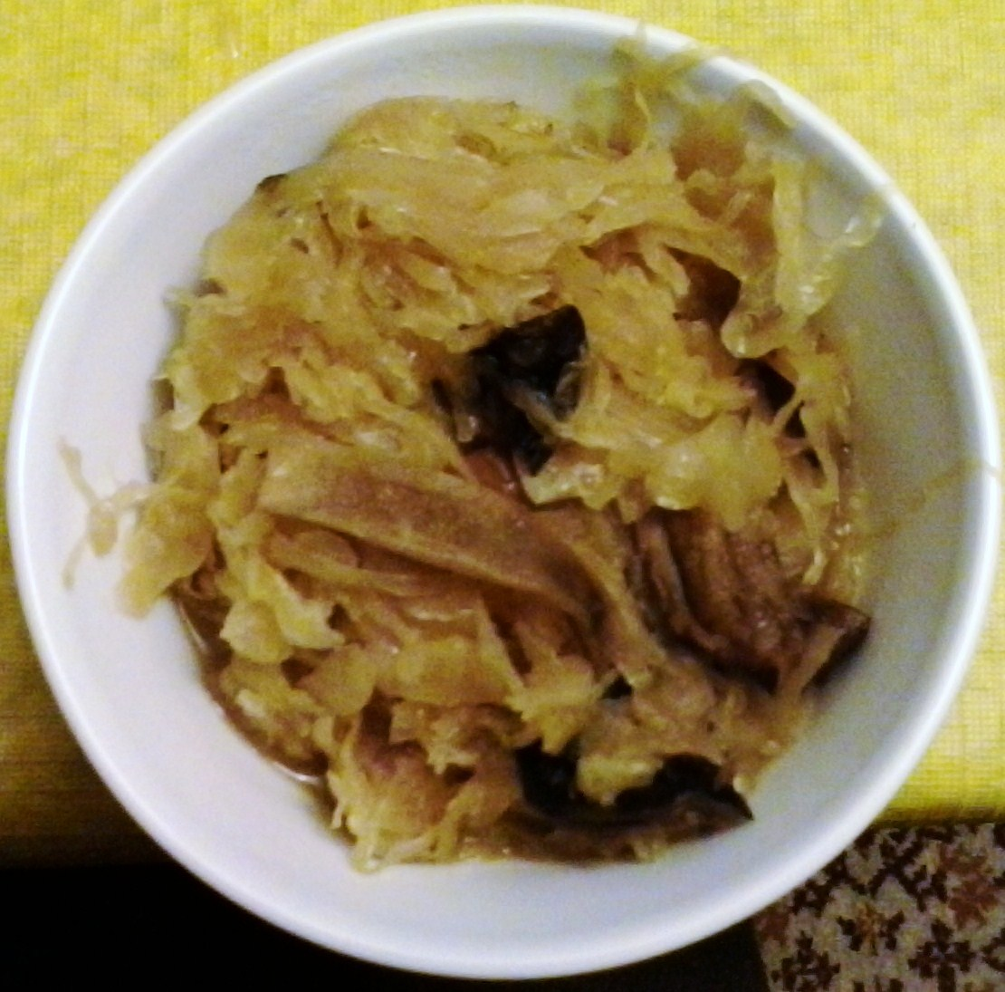 Cabbage with mushrooms. Polish cuisine (from Poznań).